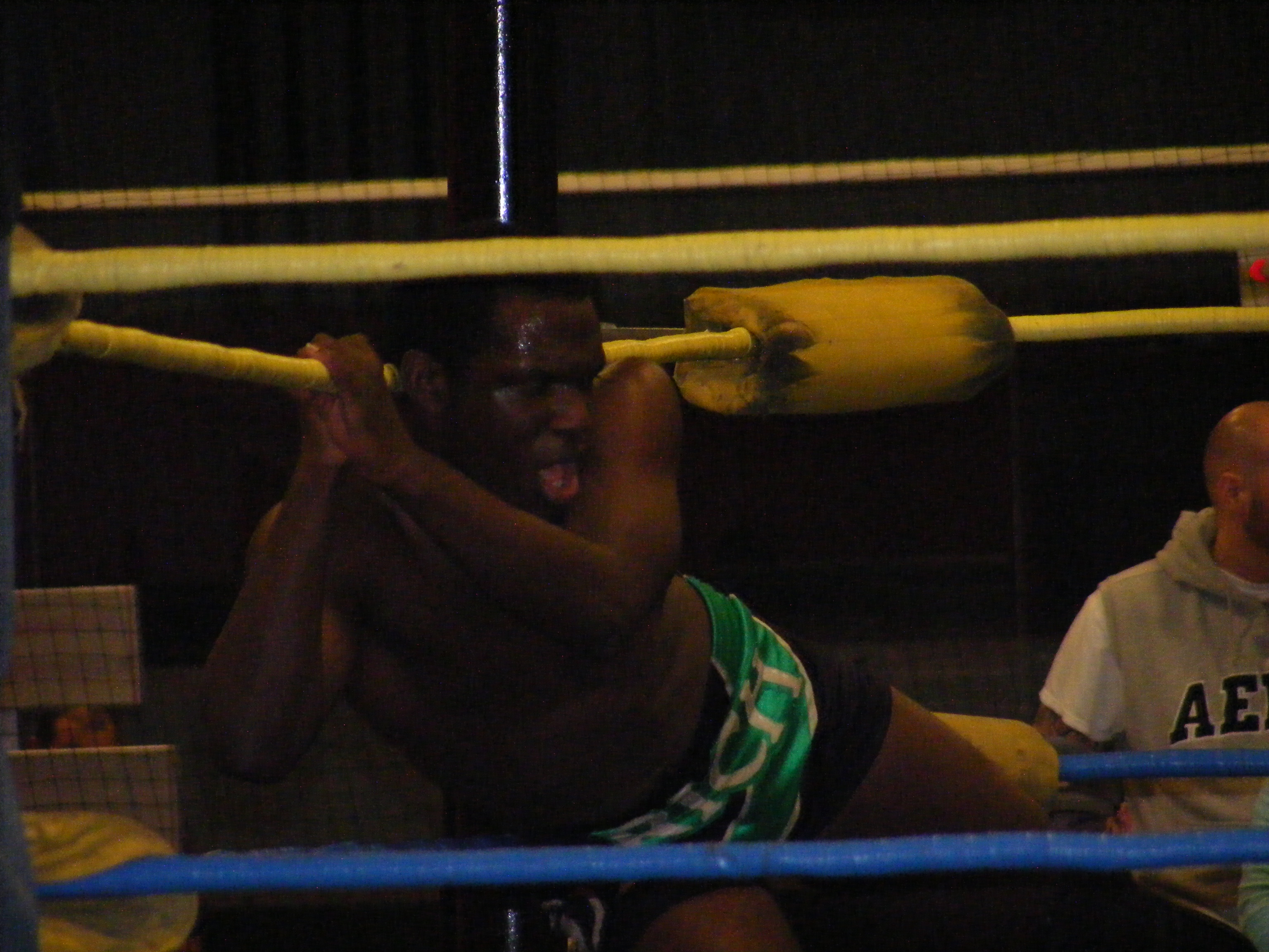 Professional wrestler Rich Swann at a Combat Zone Wrestling (CZW) event.